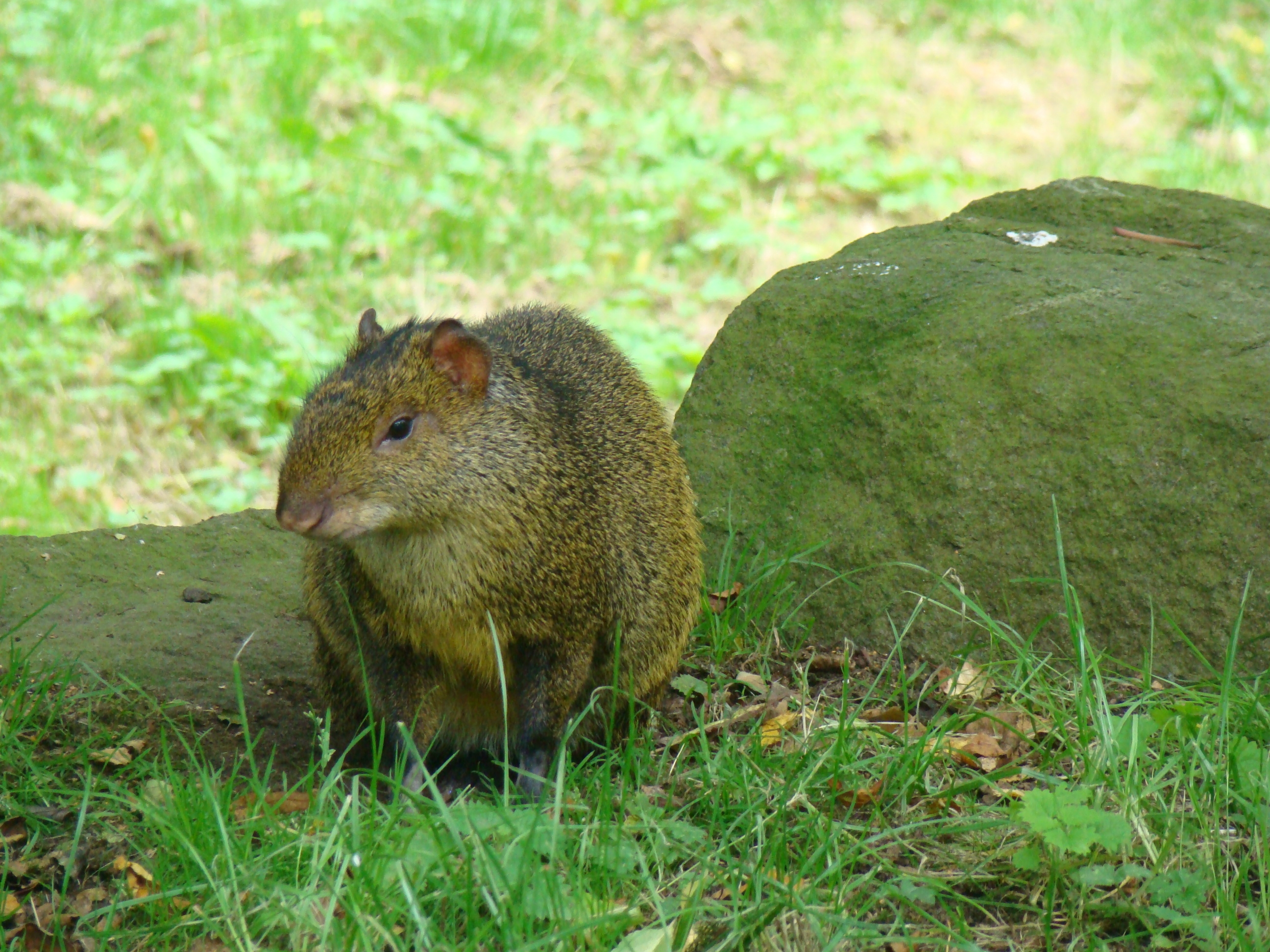 An agouti (Dasyprocta azarae) in Edinburgh Zoo